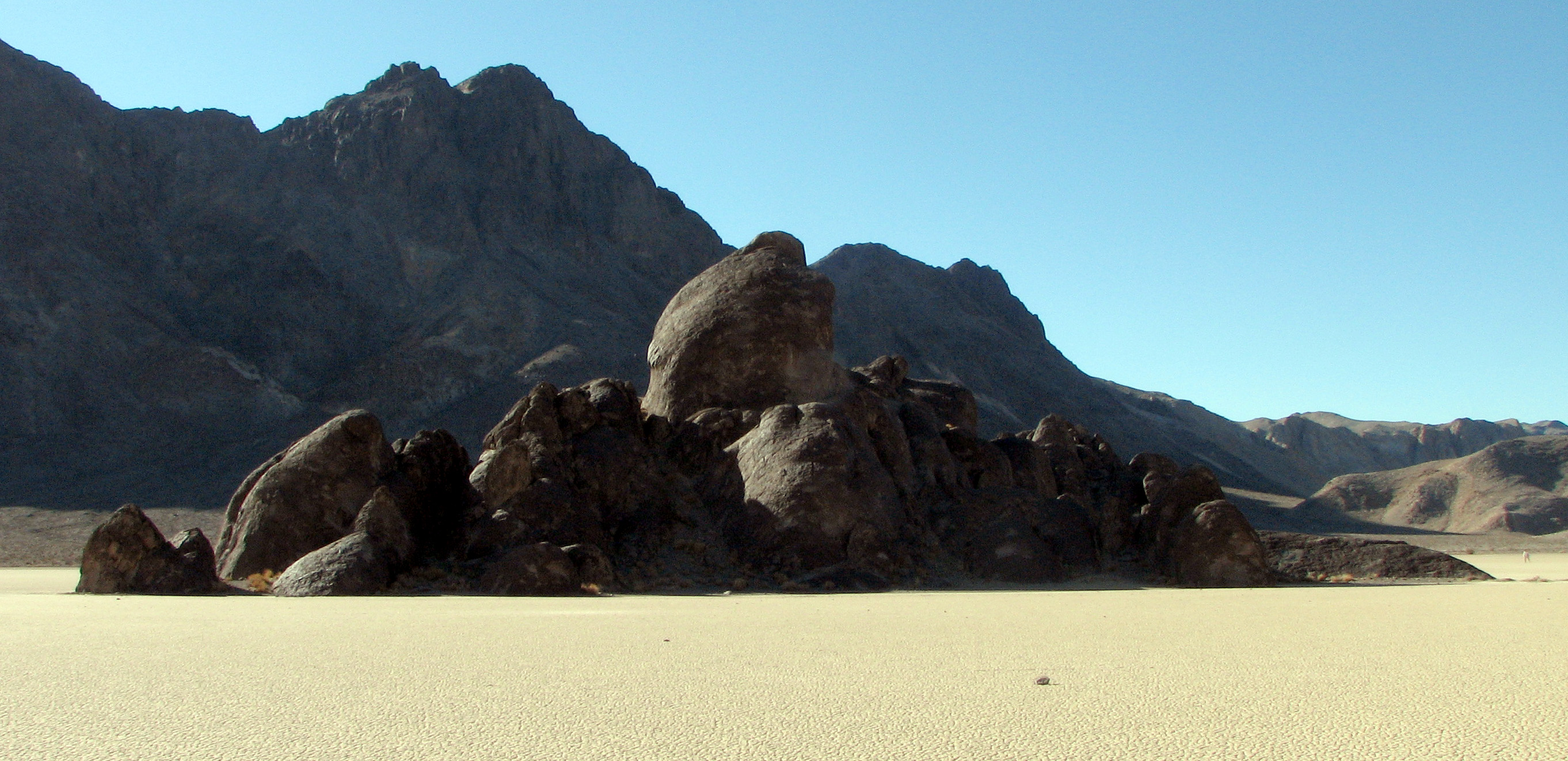 This view of the Grandstand was taken from the southeast side of the monolith, with Ubehebe Peak and the Panamint Mountains looming to the west.